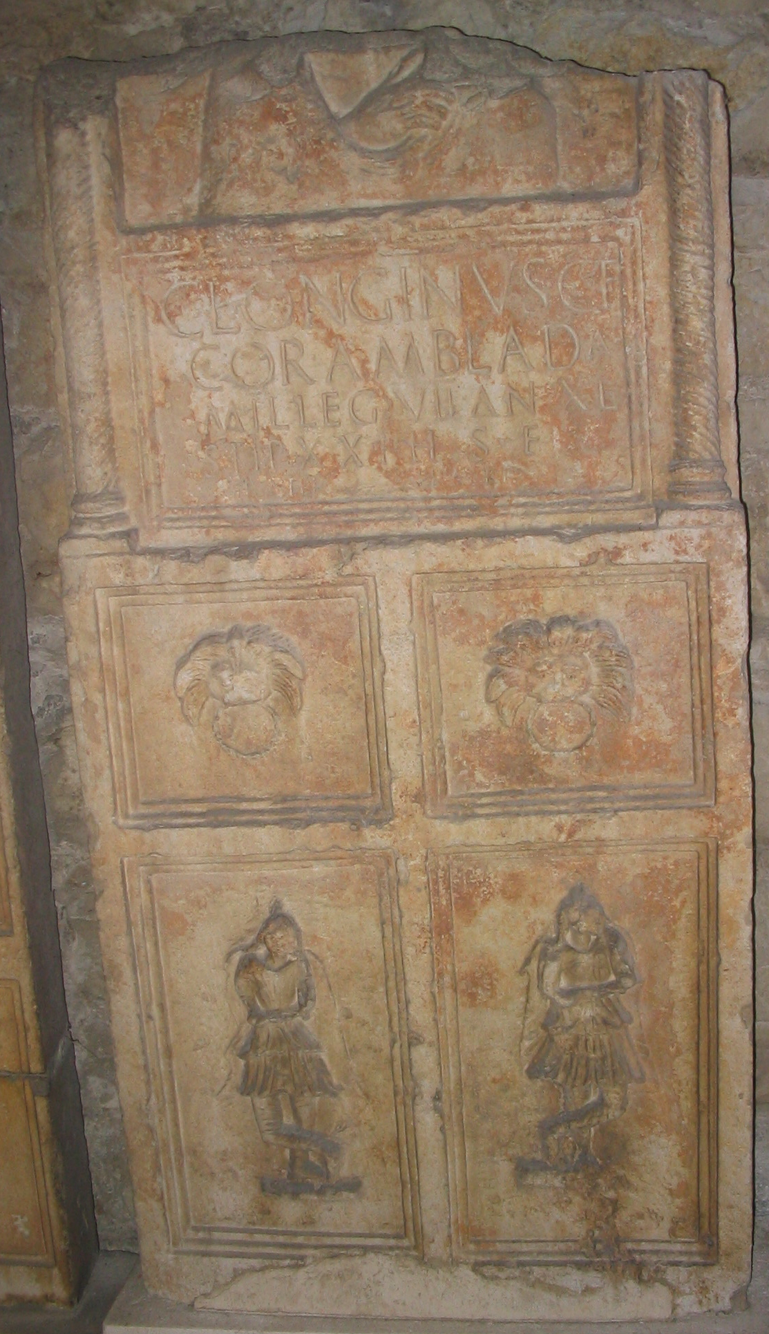 Ancient Roman inscription. Grave for the legionary soldier Caius Longinus from Amblada (Pisidia). He died at 40. Found at Delminium, now in the archaeological museum of Split. CIL III, 9737